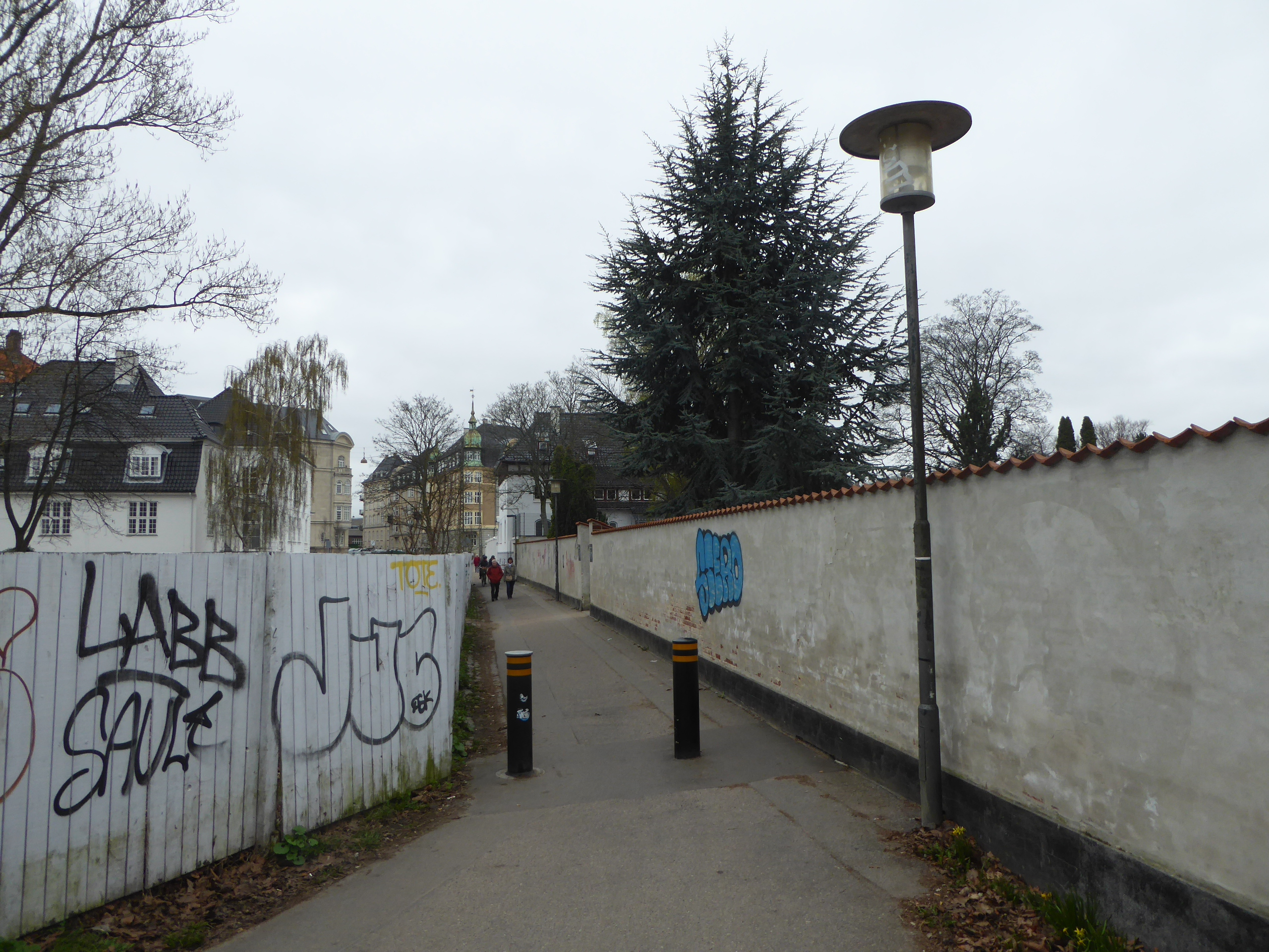 Trail in Østerbro in Copenhagen popular known as Ho Chi Minh-stien (the Ho Chi Minh trail). Behind the wall at the right is the graveyard Garnisons Kirkegård.